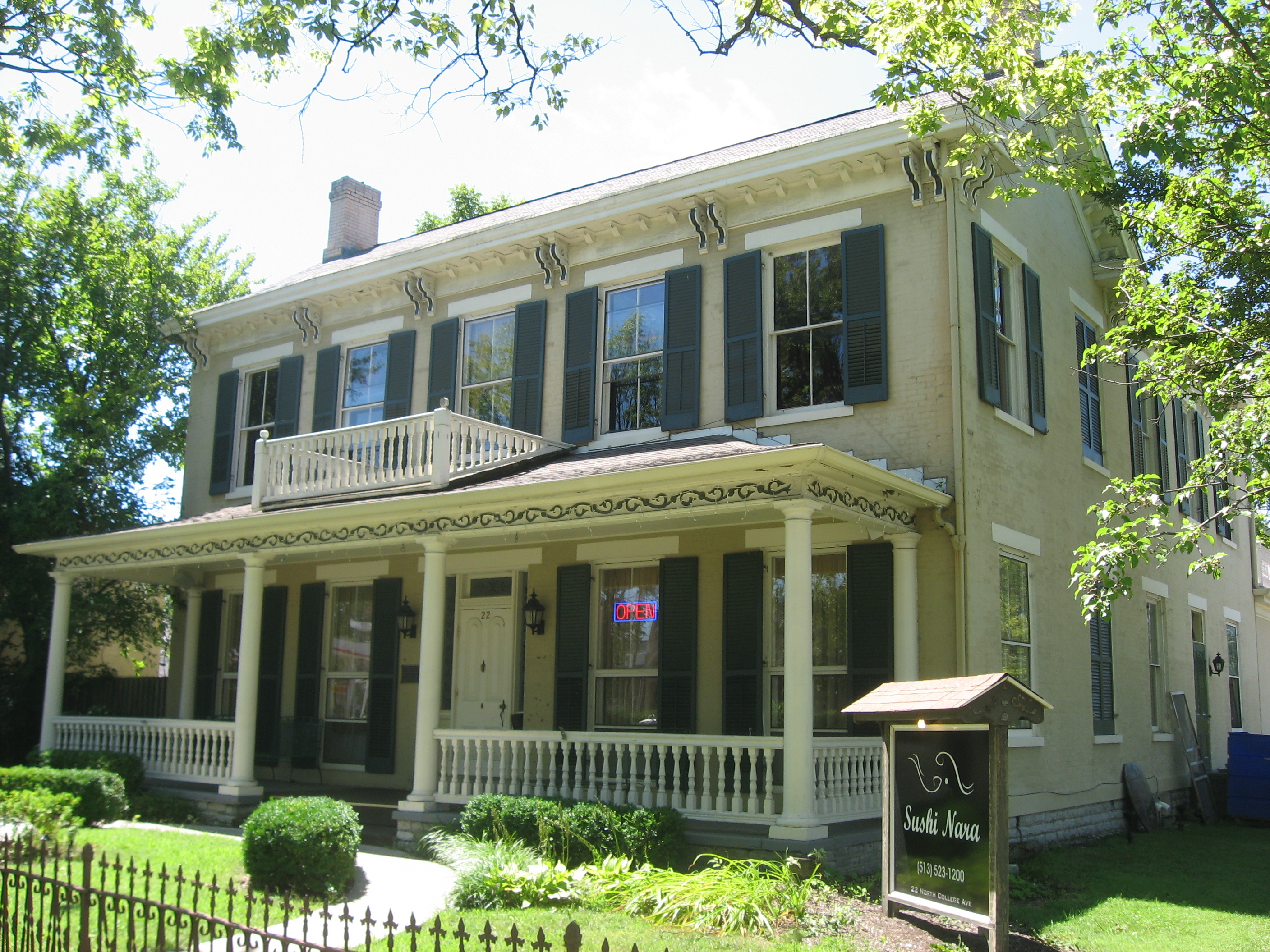 Front and northern side of the Dr. William S. Alexander House (now a Japanese restaurant), located at 22 N. College Avenue in Oxford, Ohio, United States. Built in 1869, it is listed on the National Register of Historic Places. Restaurant website.